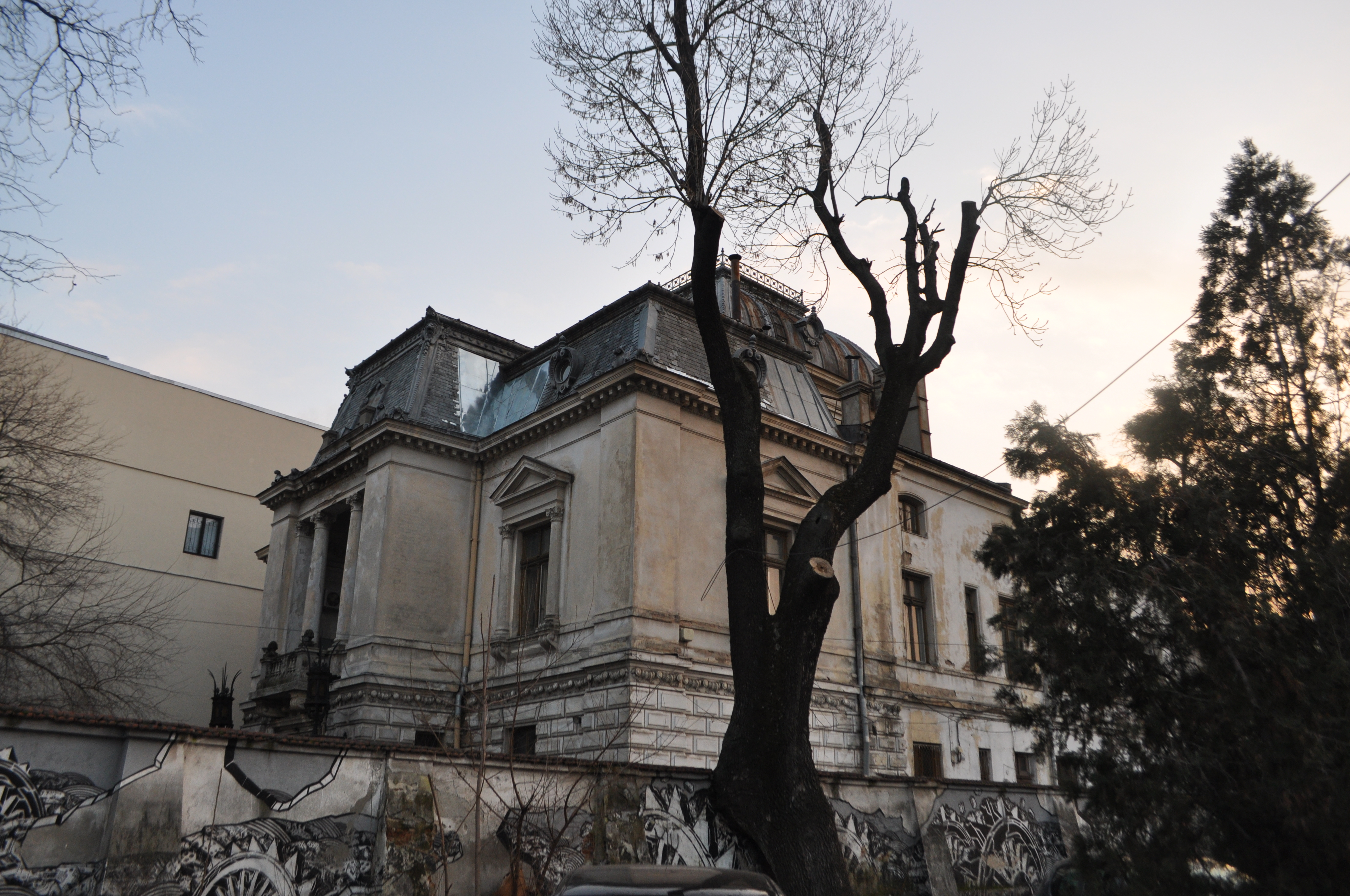 Built in 1887,side view